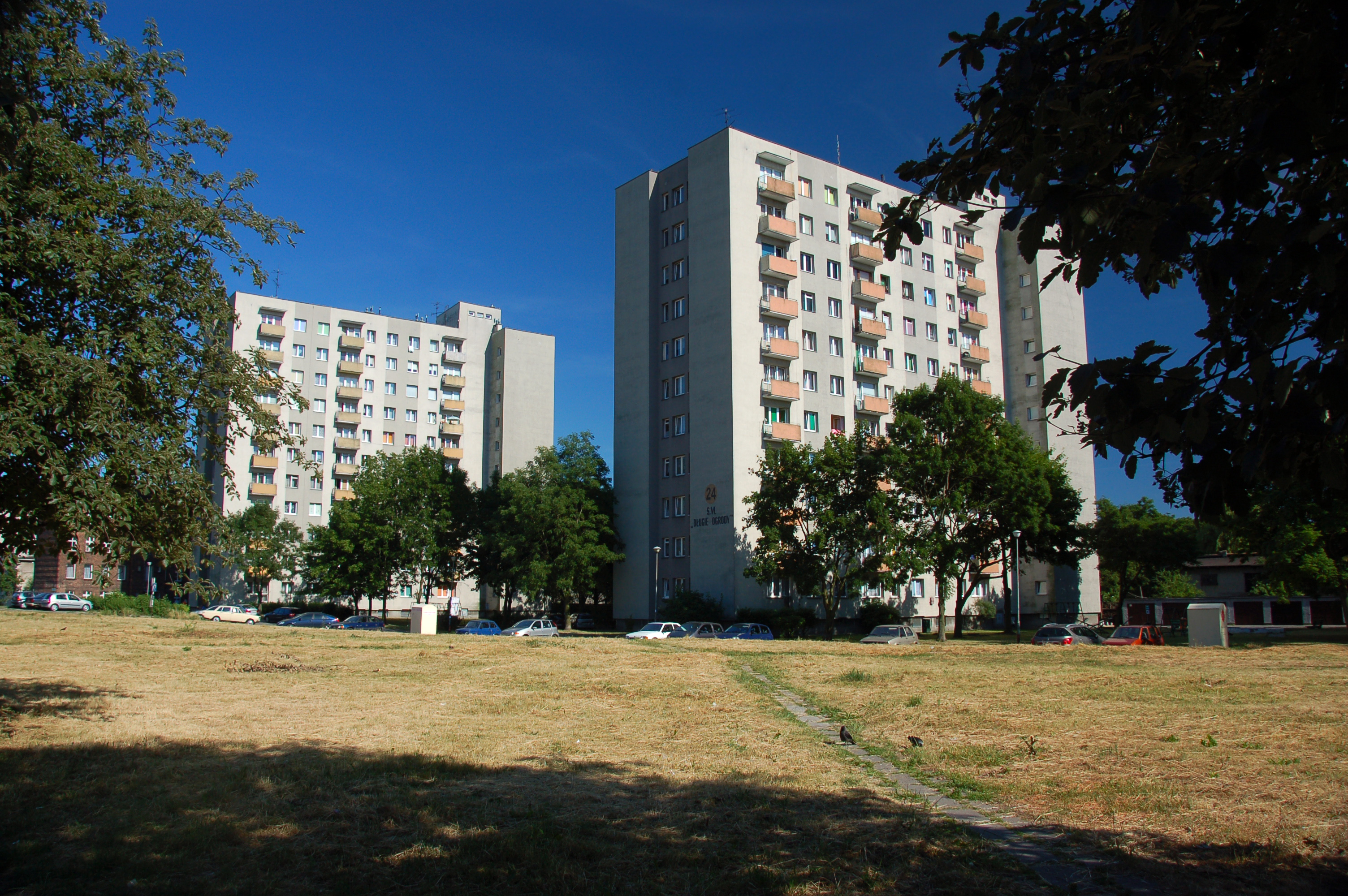 Picture taken in Gdańsk after Wikimania 2010 conference.